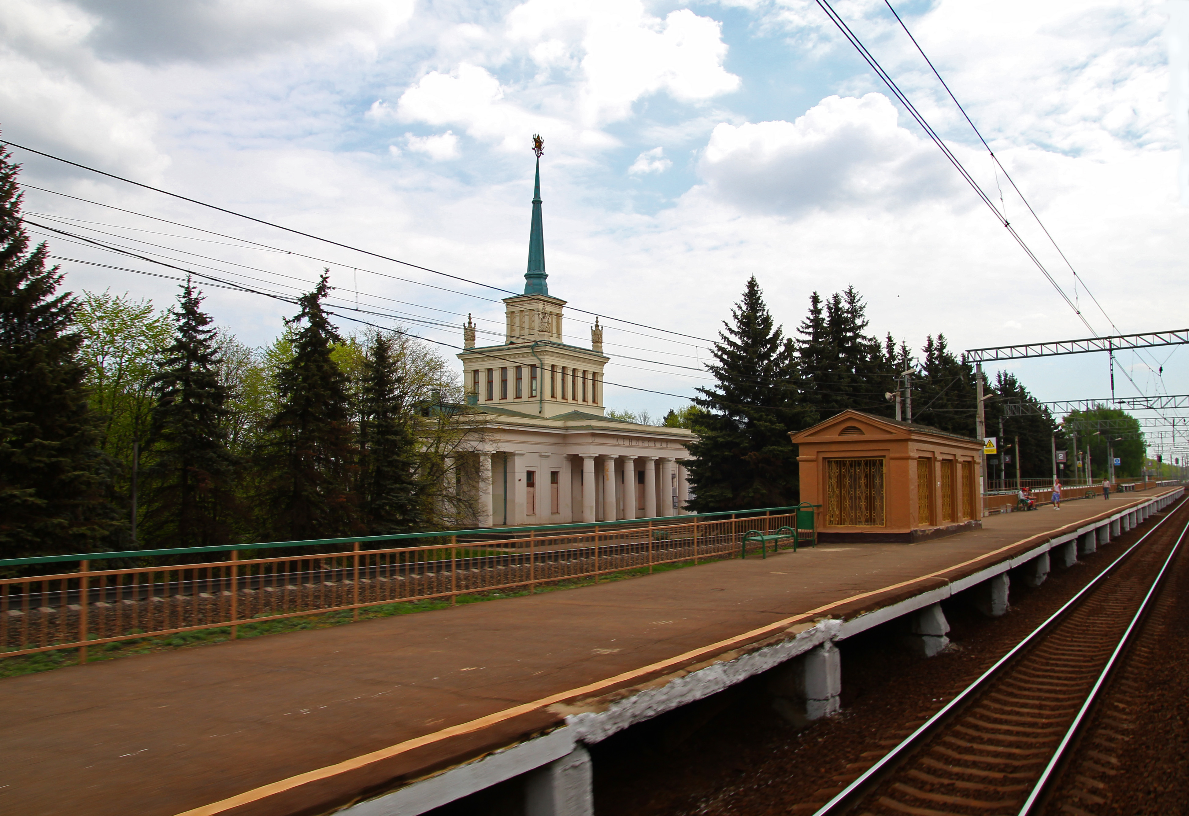 Train stop Leninskaya, Moscow Oblast, Russia